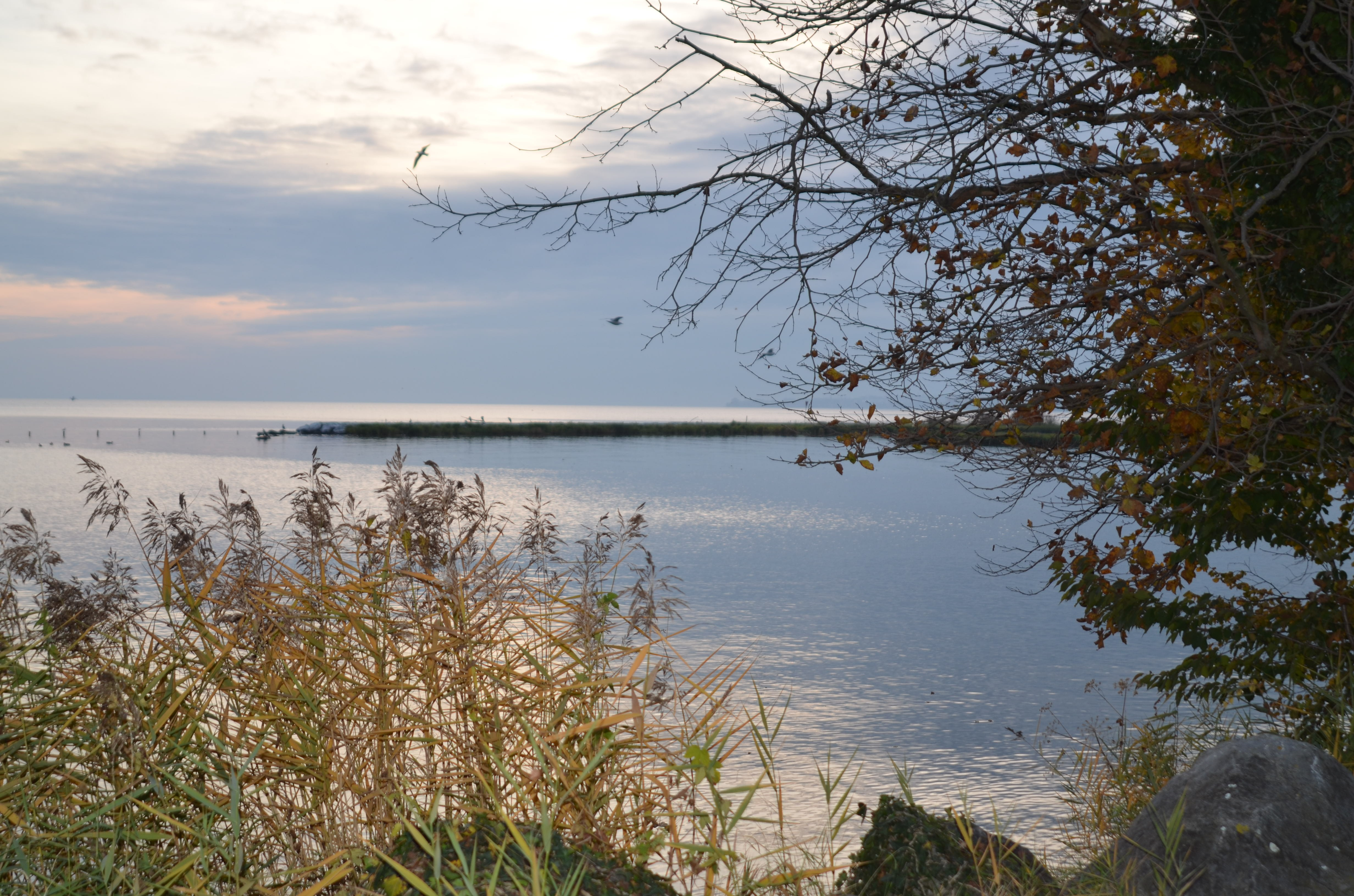 Birds Island in Préverenges